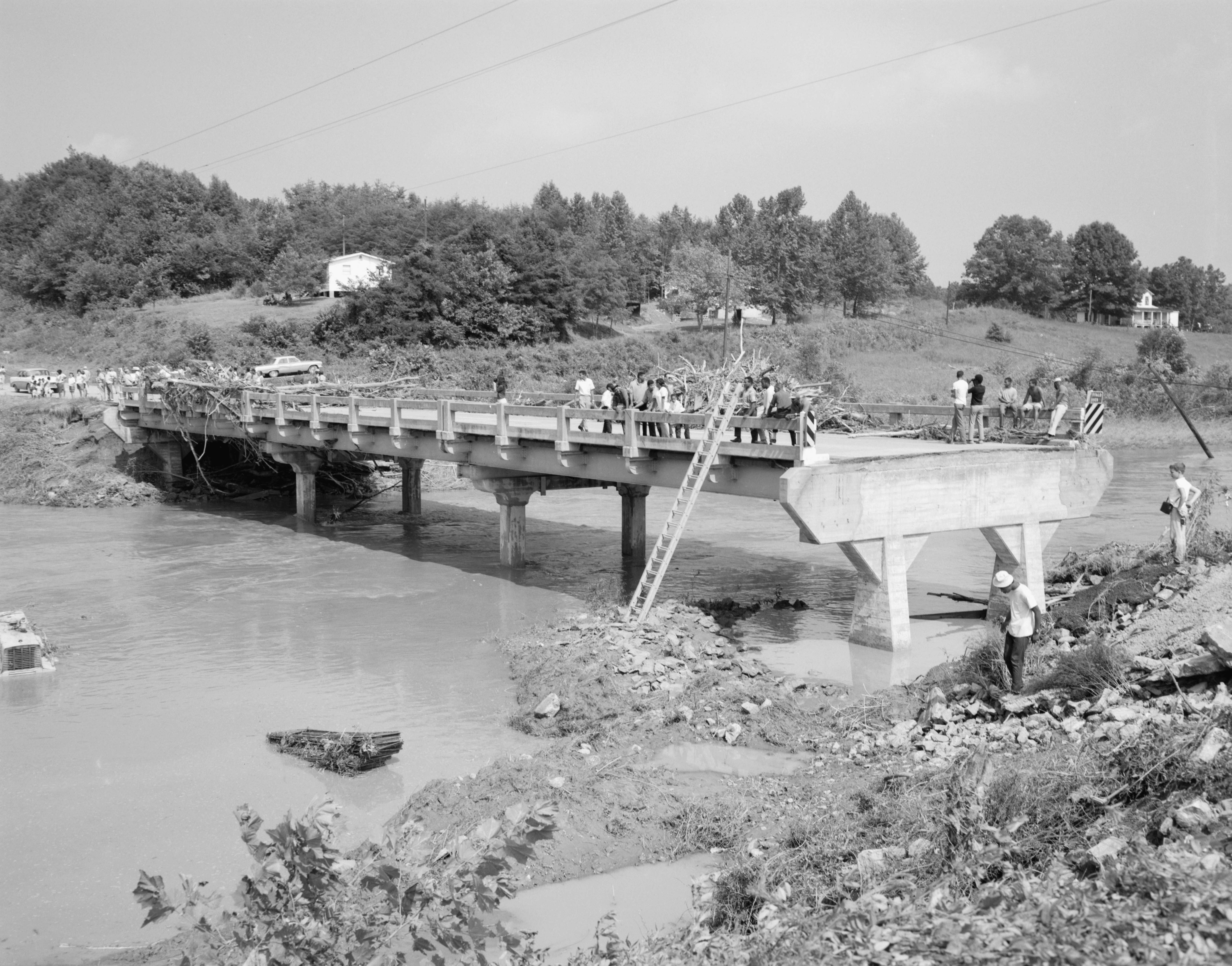 Onlookers gather on the badly damaged the Rt. 29 Buffalo River Bridge, approximately two miles north of the intersection with Rt. 60 in Amherst County. Photo taken looking north. No. 69-1173, Virginia Governor's Negative Collection, Library of Virginia.